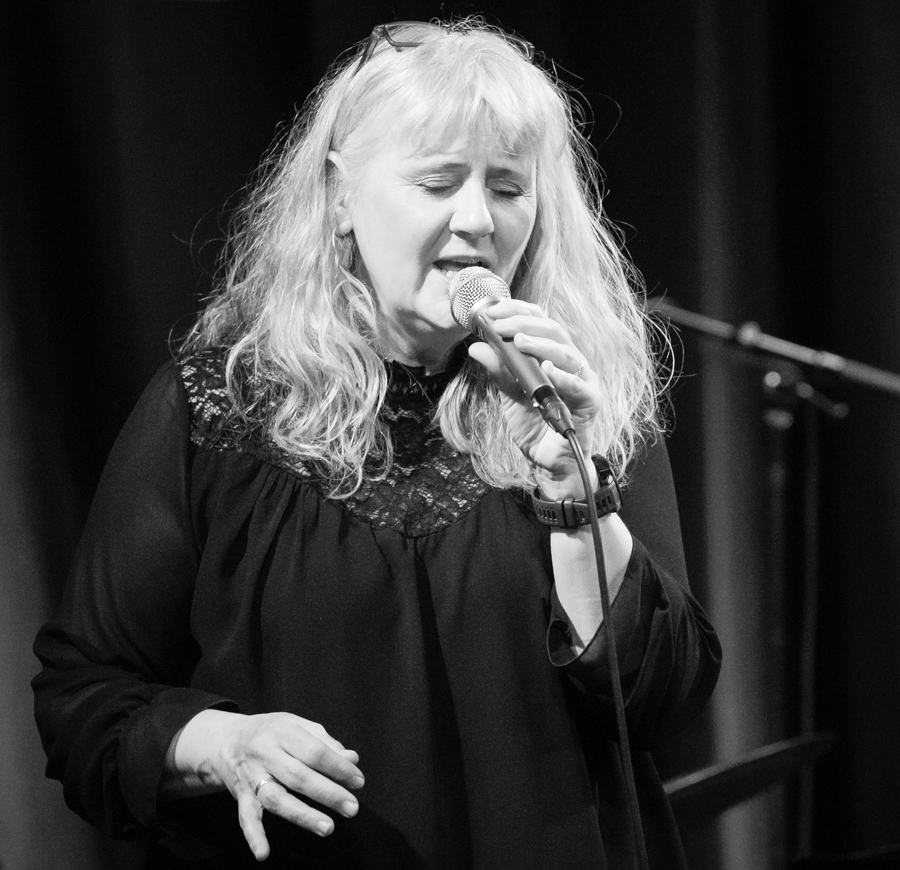 Siri Gellein in a concert with Siri’s Svale Band at Victoria Teater. The concert took place on 28. February 2020 in Oslo. Lineup:Siri Gellein (vocal)John Pål Inderberg (baritone saxophone)Bjørn Alterhaug (double bass)Celio Barros (bass guitar)Carl Haakon Waadeland (drums)